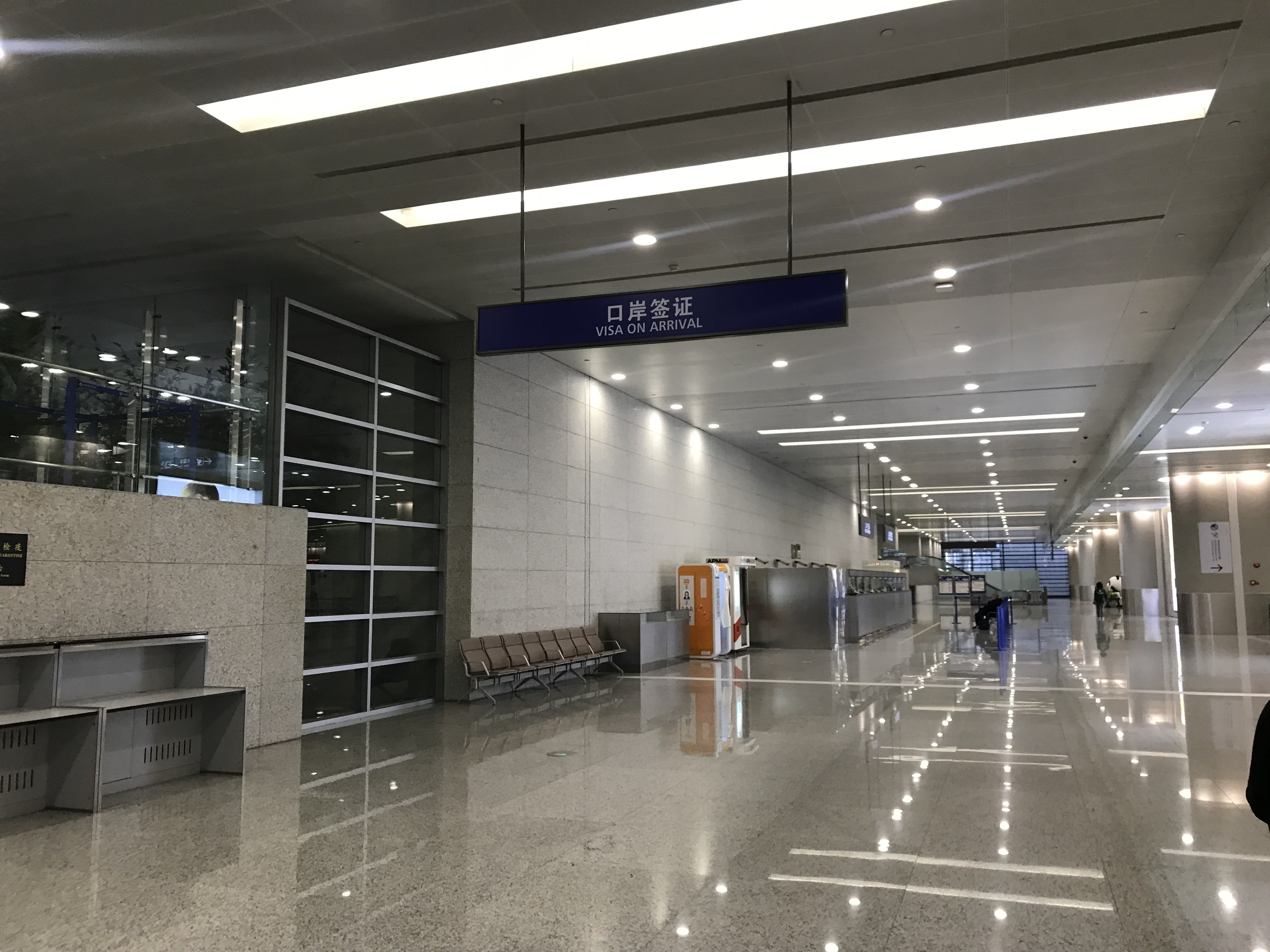 201812 Port Visa Issuing Area at PVG T2 before the CIQ lines. Most of the transiting passengers use the transfer thoroughfare unless their connecting flights are in T1